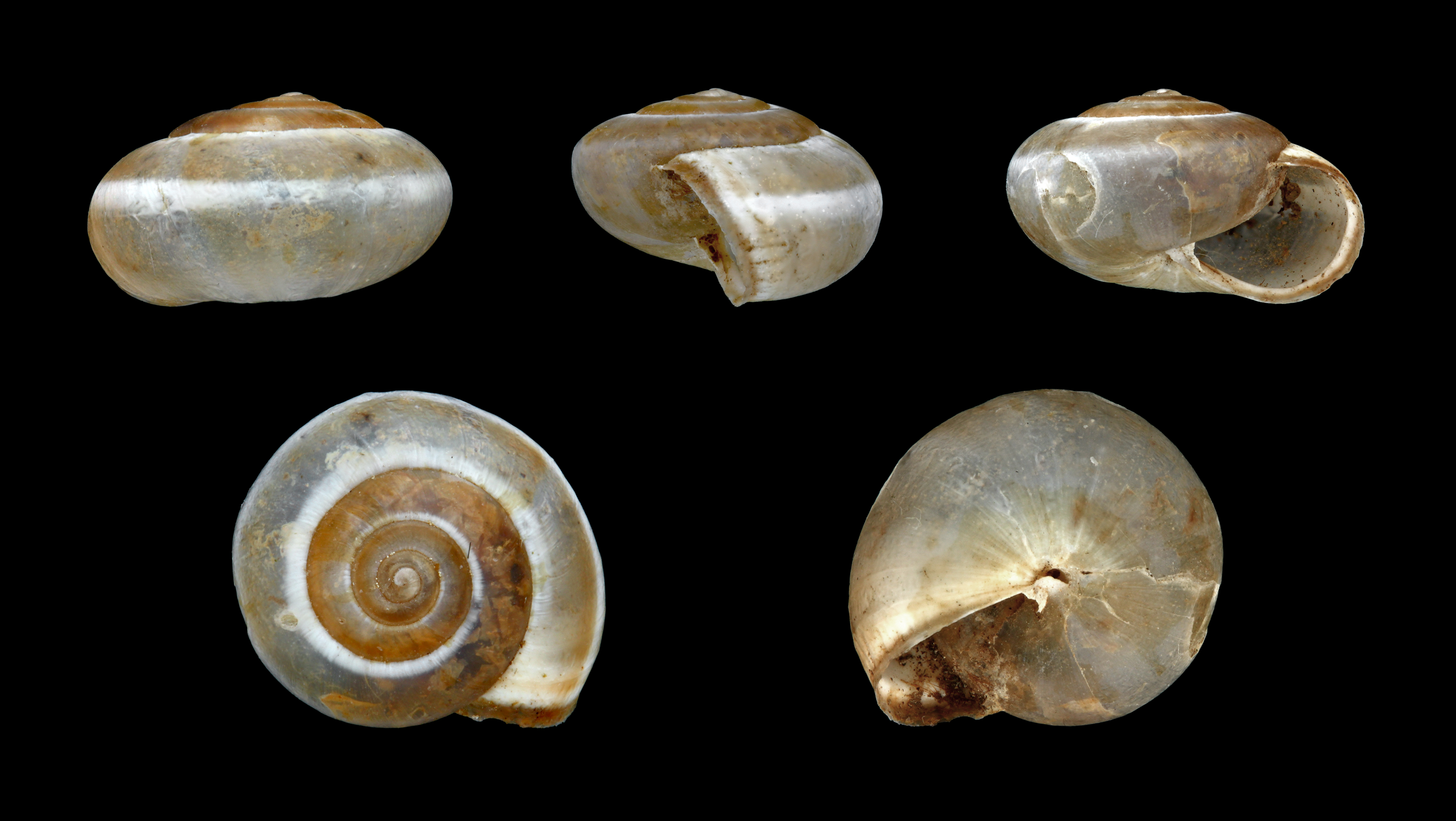 Diameter 1.0 cm; Originating from the Old Agora, Kos town, Kos, Greece; Shell of own collection, therefore not geocoded.